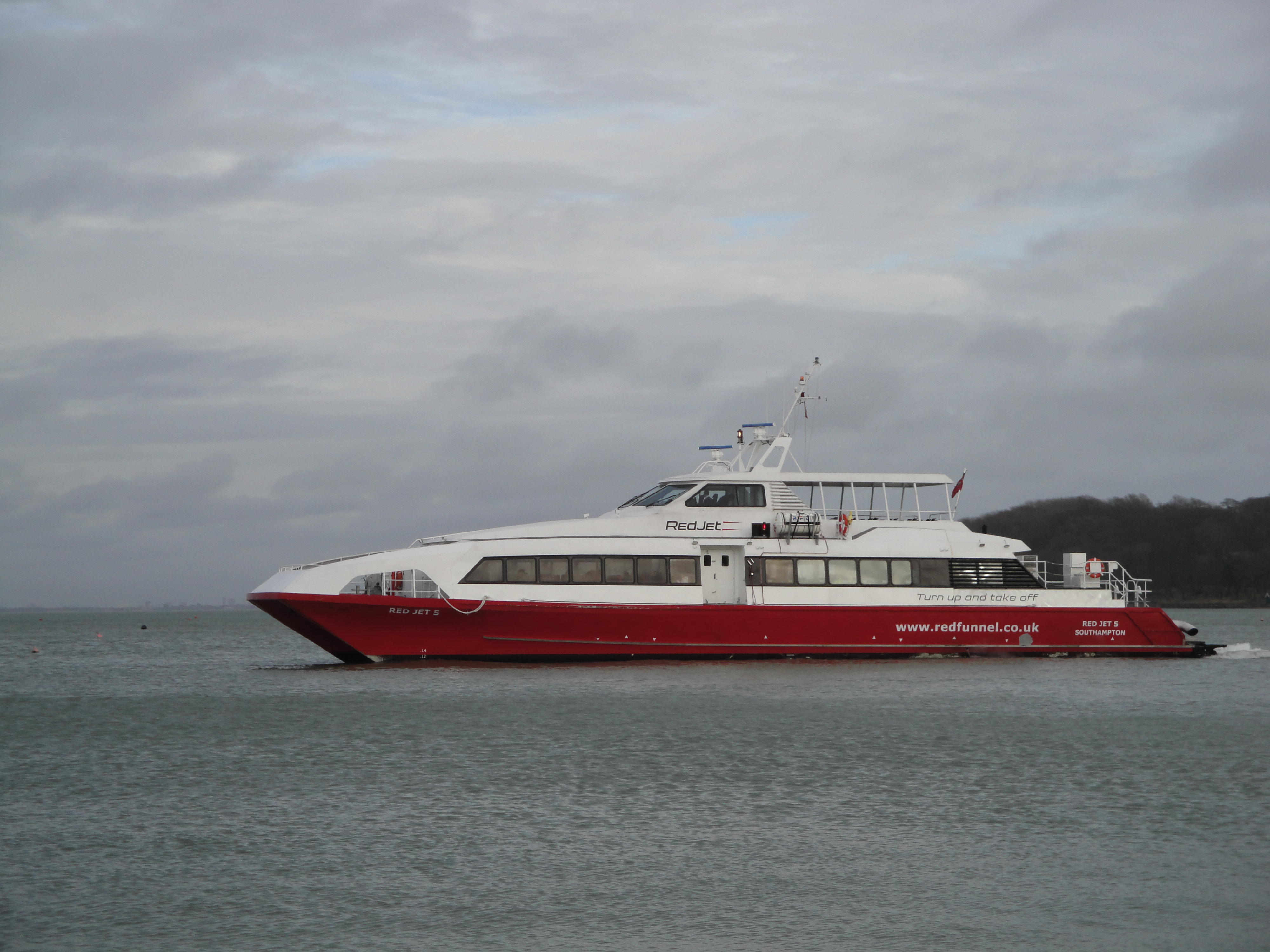 Red Funnel Red Jet 5, a high speed catamaran vessel seen just after departing Cowes, Isle of Wight.